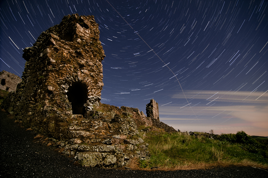 Dunamase Castle